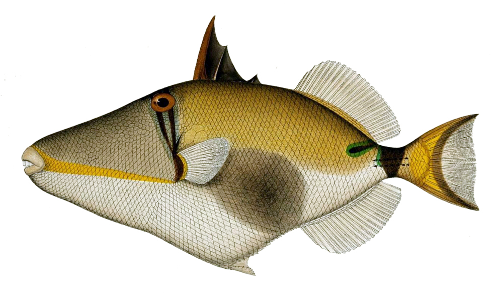 Rhinecanthus verrucosus